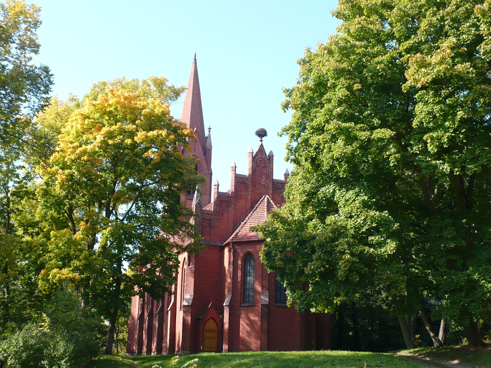 Church in Chycina